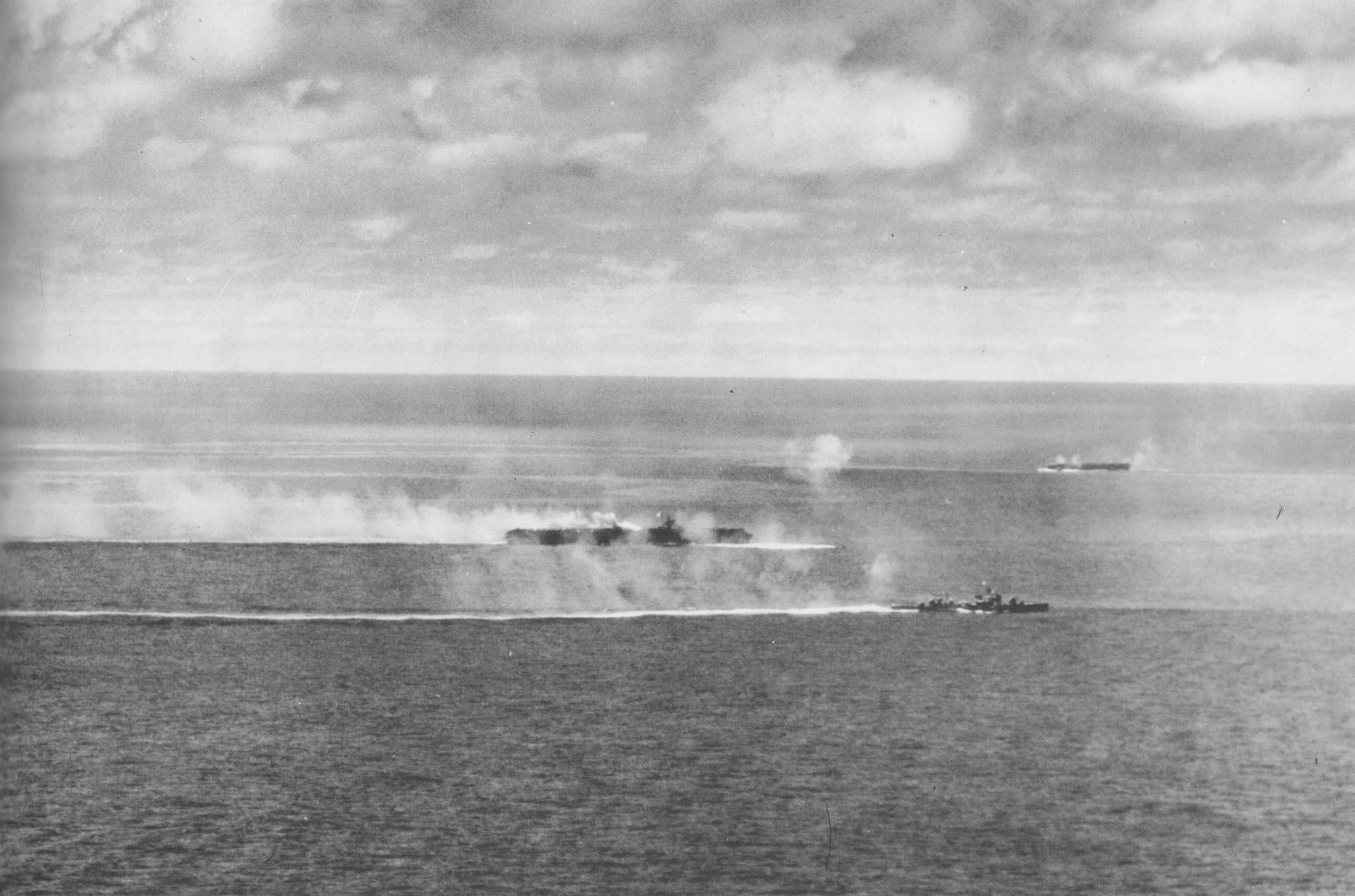 Imperial Japanese Navy aircraft carrier Zuikaku with Akizuki-class destroyer Wakatsuki underway during U.S. carrier plane attacks at about 1330 hrs. on 25 October 1944 during the Battle off Cape Engaño. The light carrier Zuiho is in the right distance.